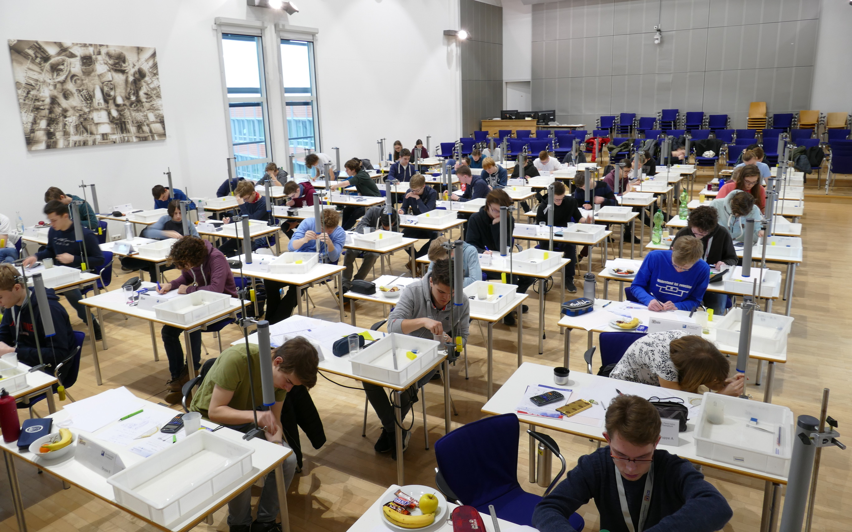 Experimental exam in the German third selection round for the 2020 International Physics Olympiad, held at the Max Planck Institute of Plasma Physics in Greifswald.